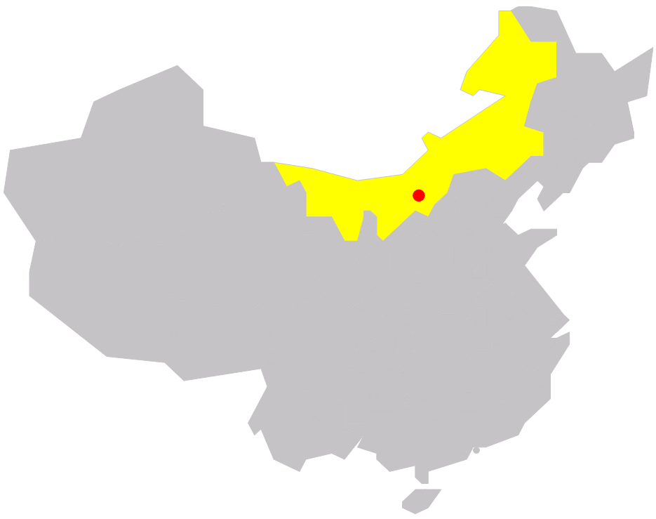 Description: position of Hohhot in China Source: own work Date: December 2005 Author: --Immanuel Giel 13:28, 16 December 2005 (UTC) Other versions: none